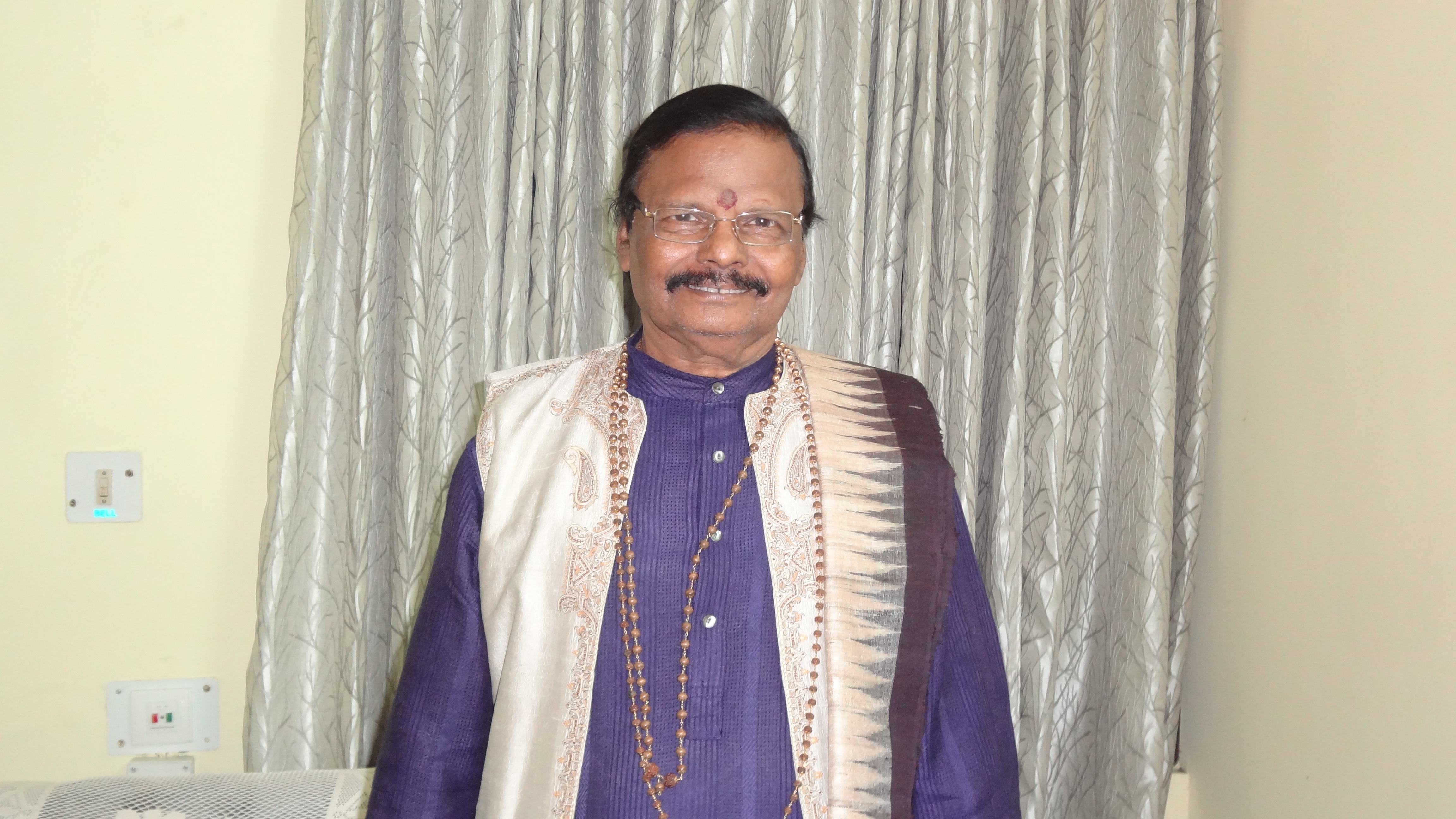 sculpturer